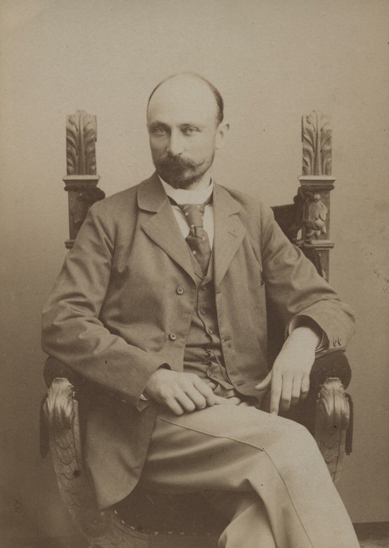 Milan Kapetanović (1859–1934, Belgrade) was an eminent Belgrade builder-architect